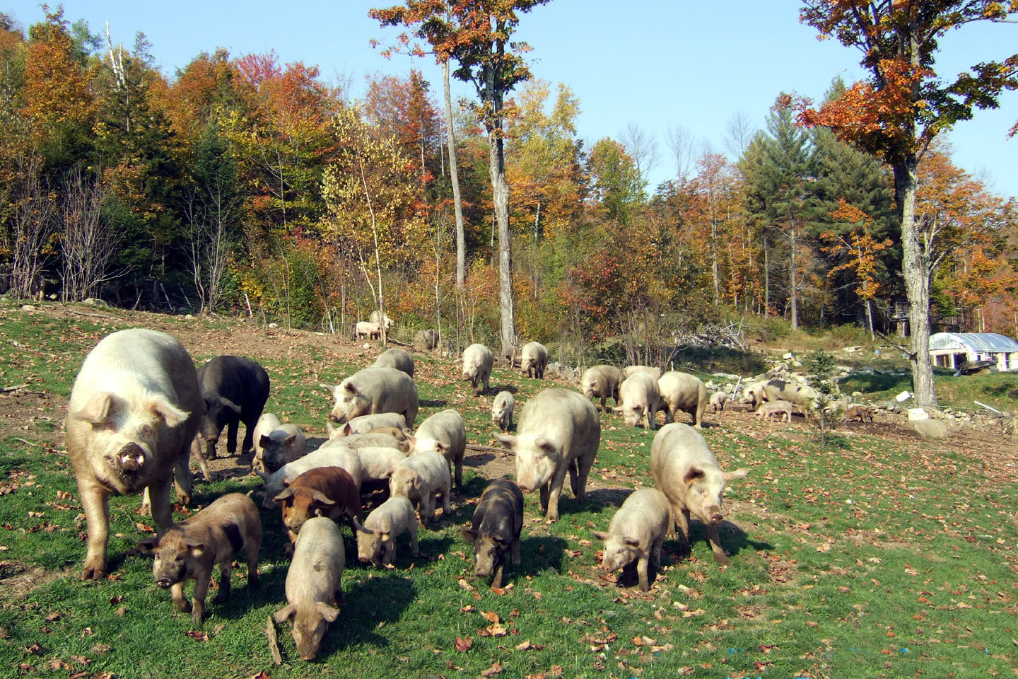 Pastured pigs at Sugar Mountain Farm, Topsham, Vermont (2007)-URL removed from original image